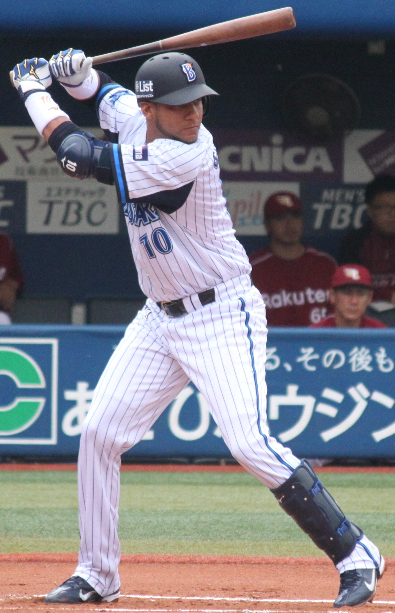 Yulieski Gourriel, infielder of the Yokohama DeNA BayStars, at Yokohama Stadium.